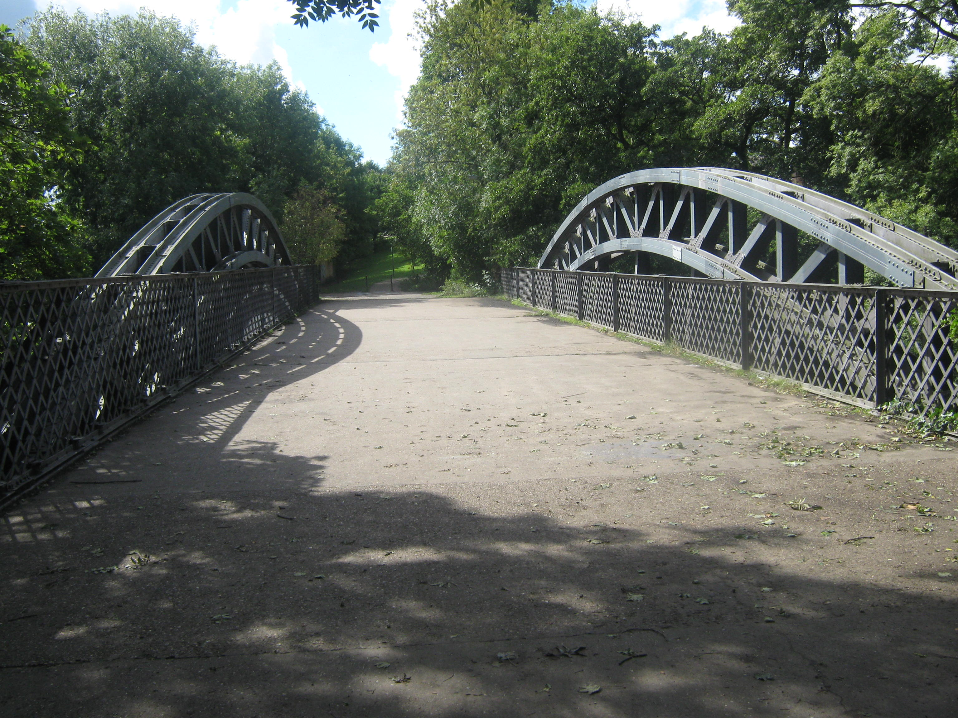 Handyside Bridge near Friar Gate Station in Derby